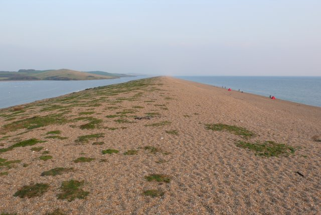 Chesil Beach, Abbotsbury View SE along the top of the beach towards Portland